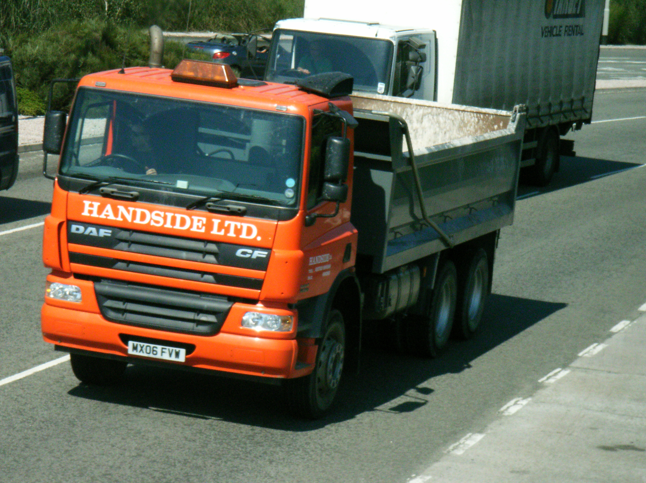 MX06FVW DAF TRUCKS CF FAT CF75.310 DAY TIPPER 9200cc (10/04/2006) DIESEL